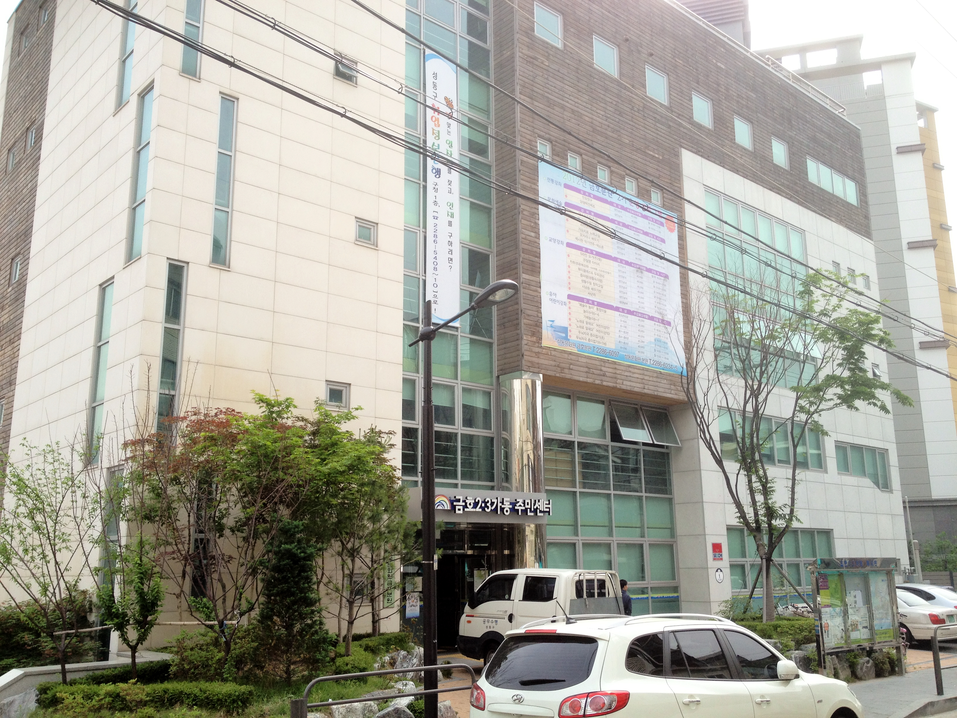 Geumho 2.3-ga-dong Comunity Service Center(Seongdong-gu)